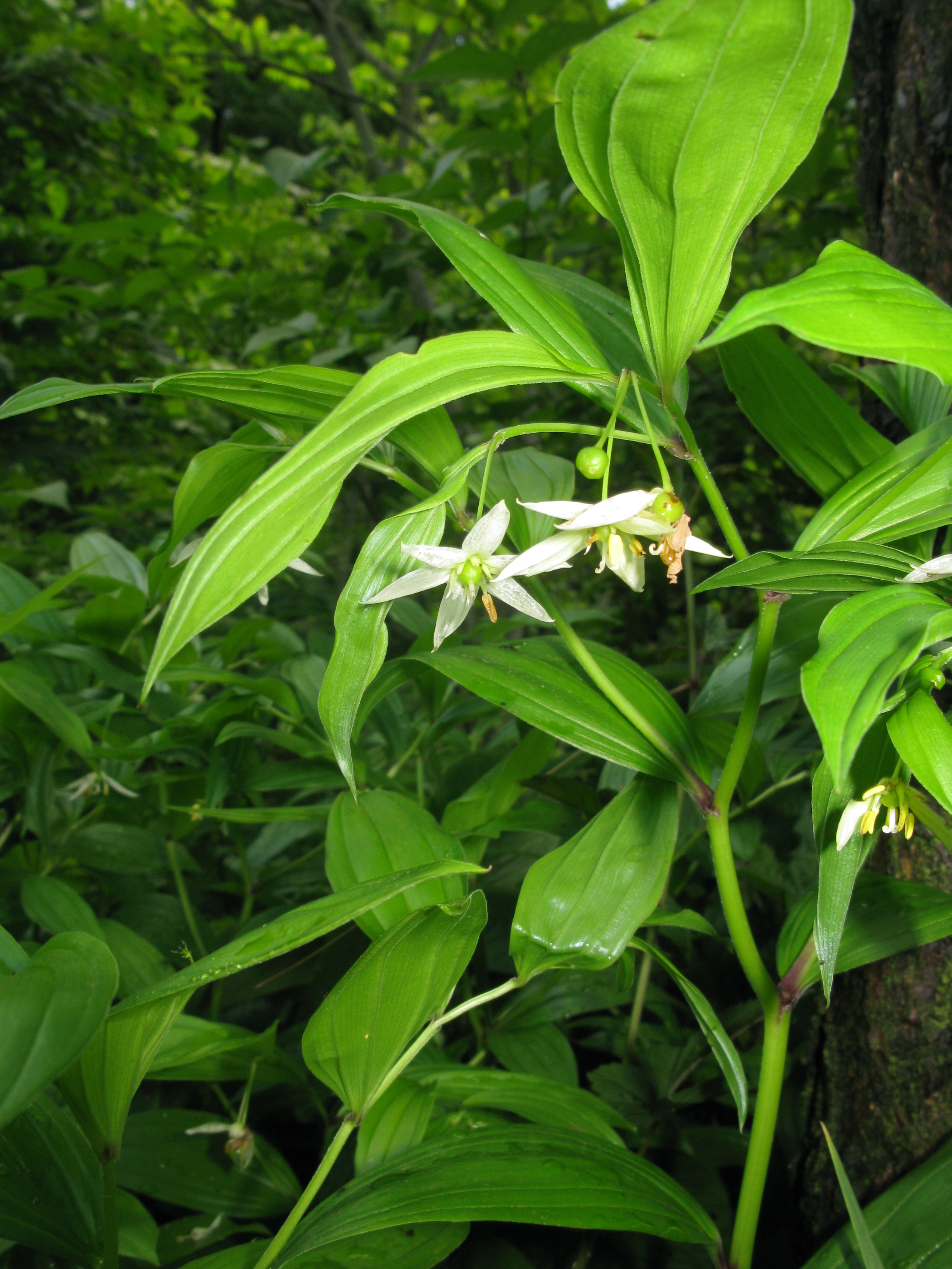 Disporum viridescens,Chofu city wild grass garden, Tokyo, Japan